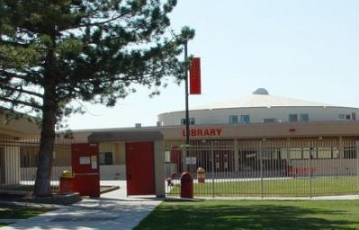 Kamiakin High School of Kennewick, Washington, Arthur Street entrance on east side of campus